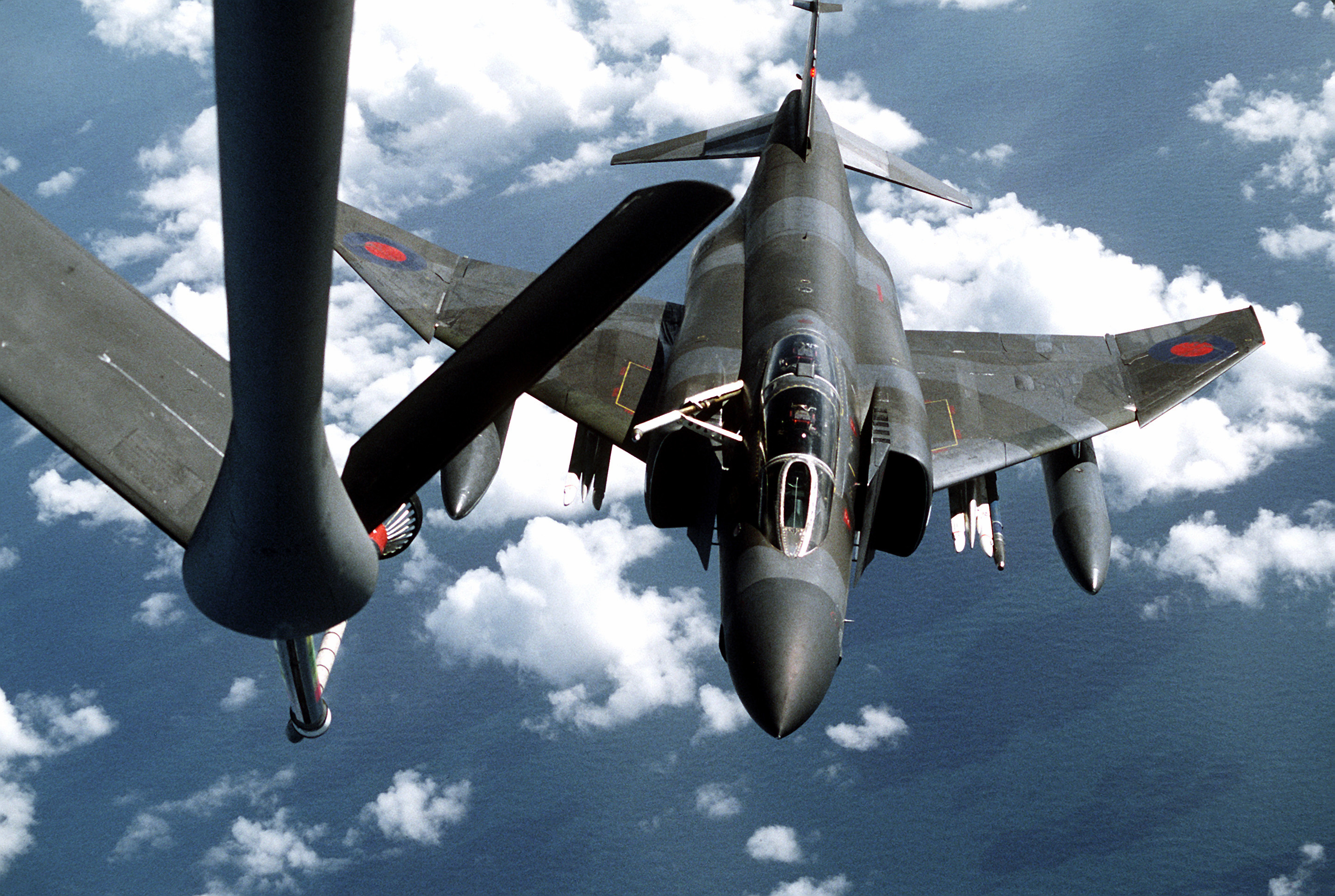 A McDonnell Douglas Phantom FG.1 of No. 43 Squadron, Royal Air Force, approaching a U.S. Air Force KC-135A Stratotanker of the 306th Strategic Refueling Wing for in-flight refueling on 1 September 1980.